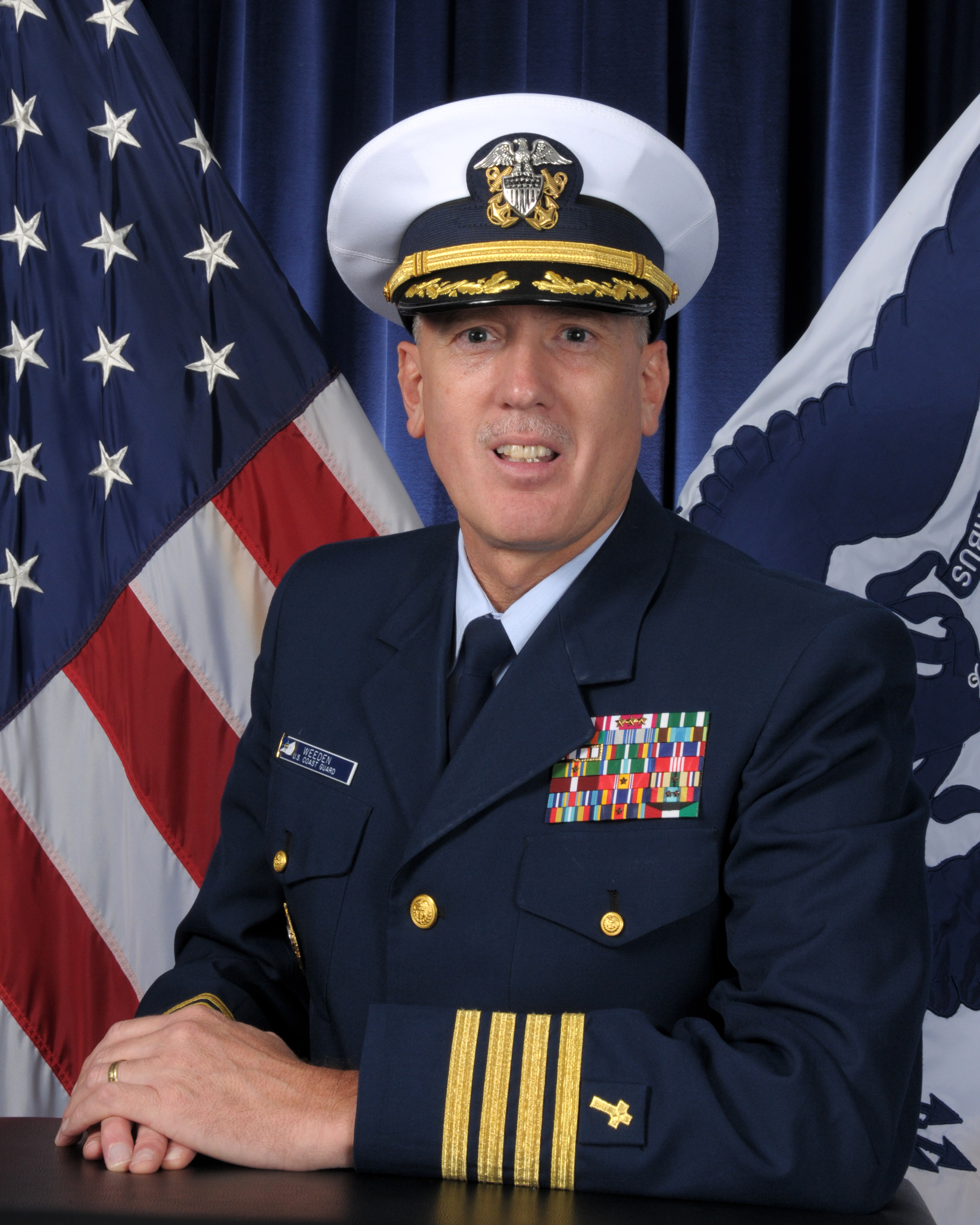 Gary Weeden, Chaplain of the United States Coast Guard